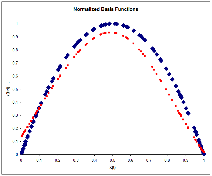 Normalized basis functions. The Logistic map (blue) and the approximation to the logistic map (red) after one pass through the training set. Note the improvement over the unnormalized case. (copied from Radial basis function network)